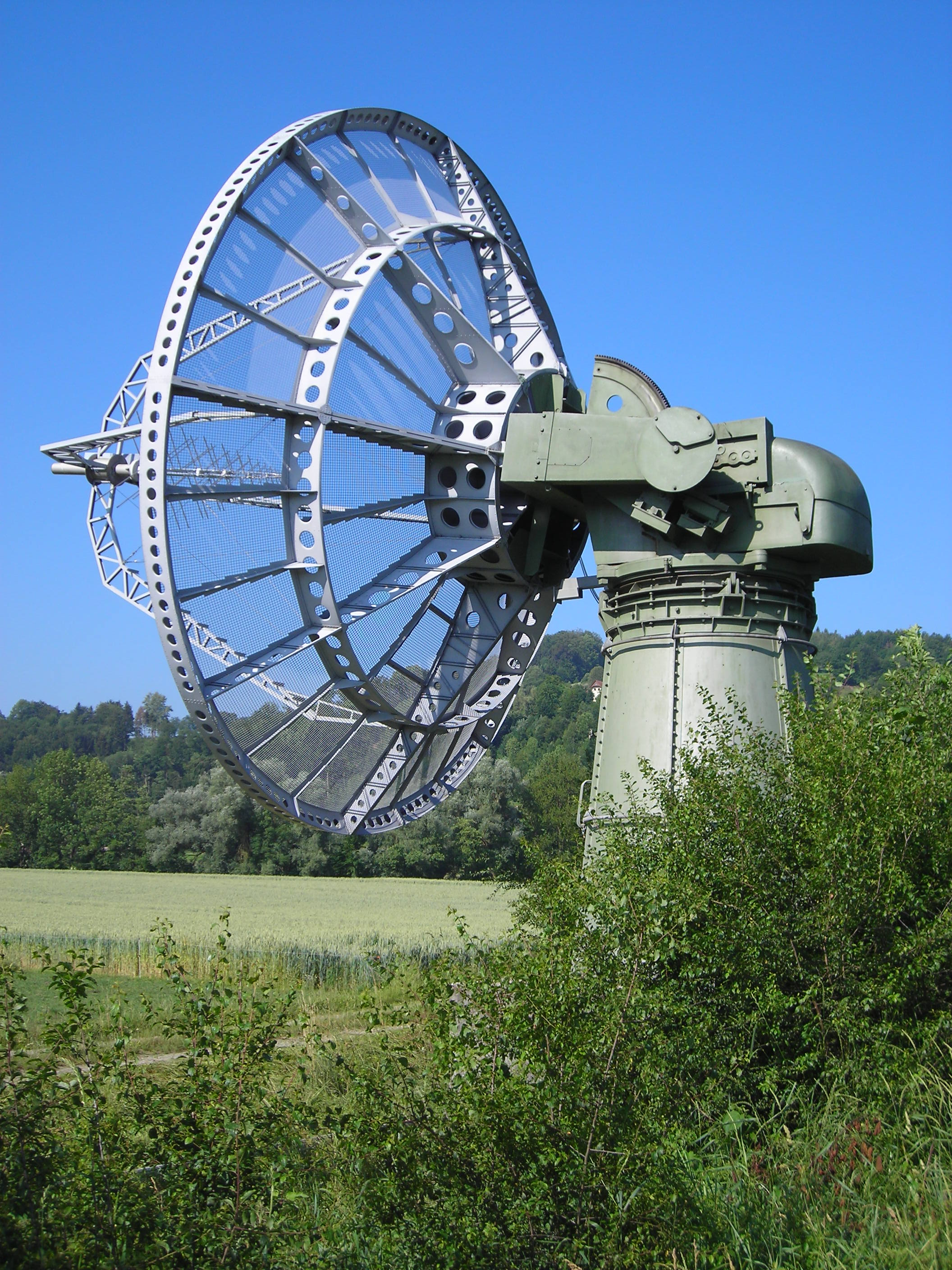 Phoenix-4 Parabolic antenna of Bleien Observatory for Radio Astronomy in Gränichen (Switzerland) Stats[1]: altitude above sea level: 469 meter diameter telescope: 7 meter minimum elevation: 5 deg Available observing mode: single dish. Frequencies used currently: 0 - 6GHz and 10GHz - 12GHz. Research programs: solar radio astronomy, stellar radio astronomy.